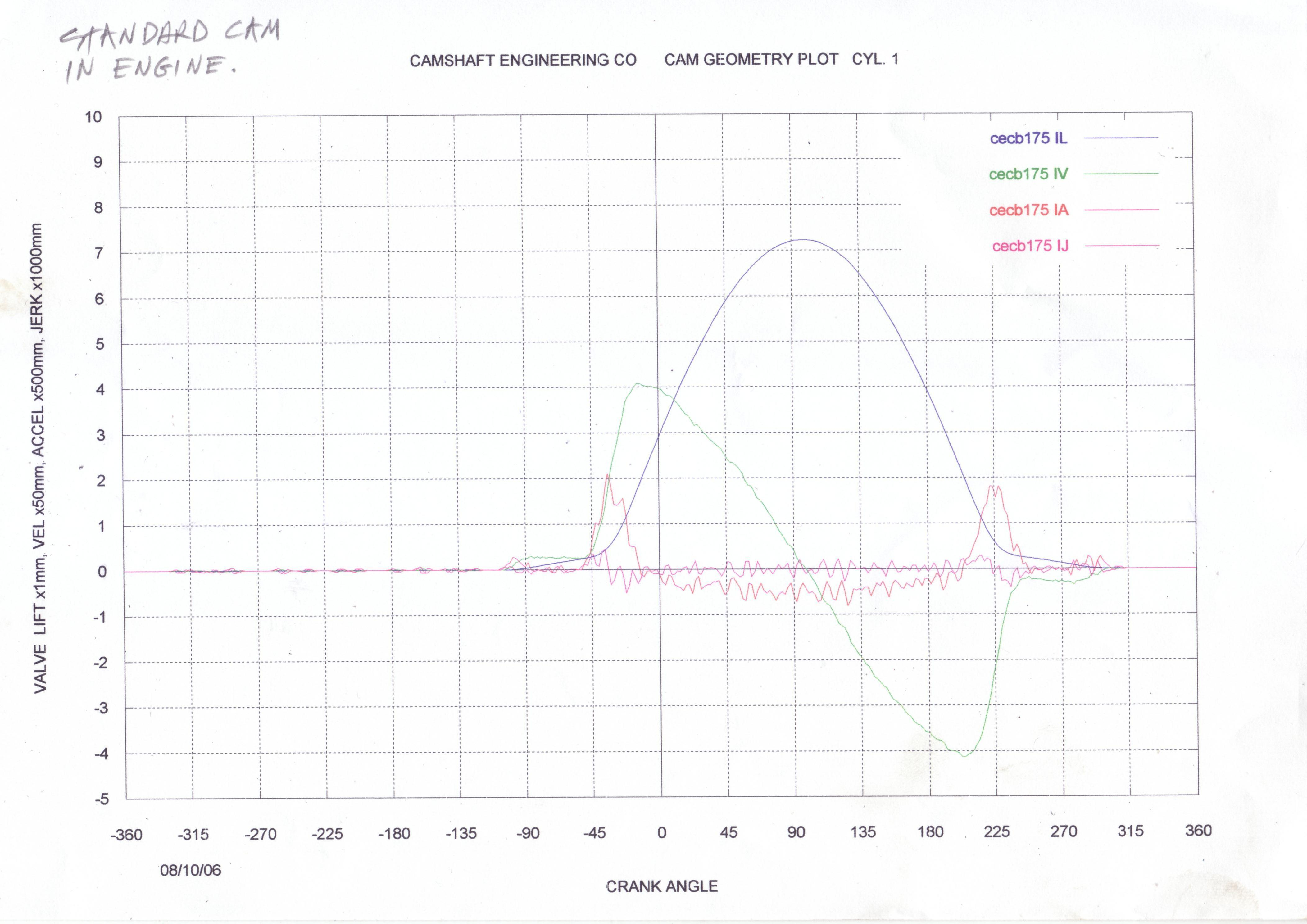 Lift graph standard Suzuki GSX 250 cam.